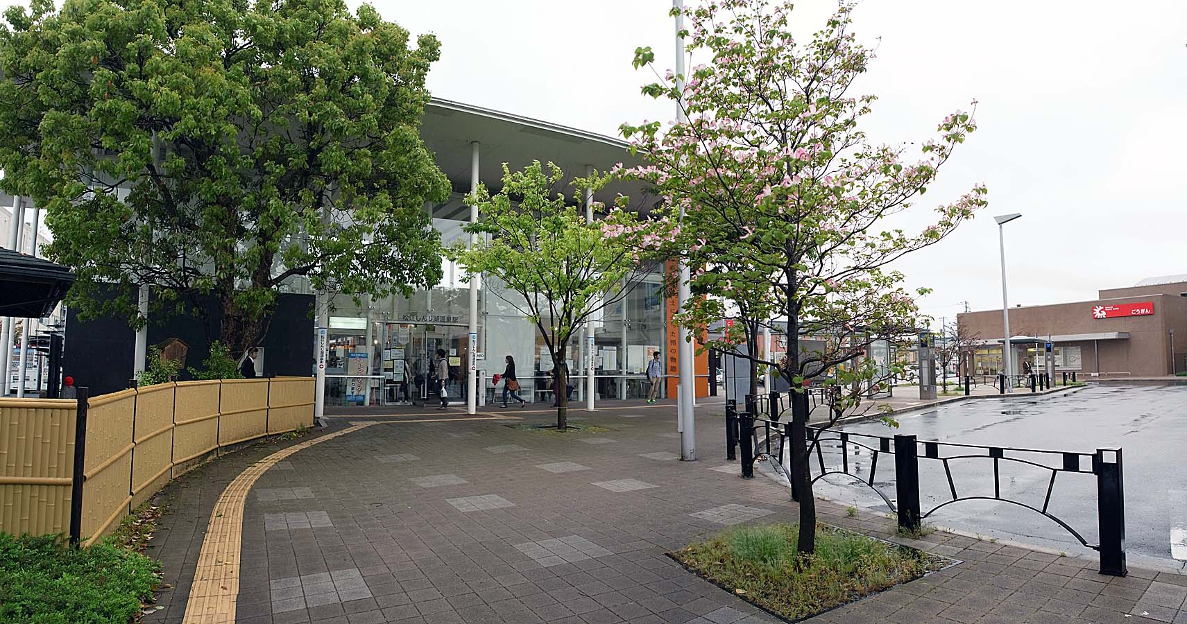 Ichibata Electric Railway Matsue Shinji ko Onsen sta. , 一畑電車 松江しんじ湖温泉駅